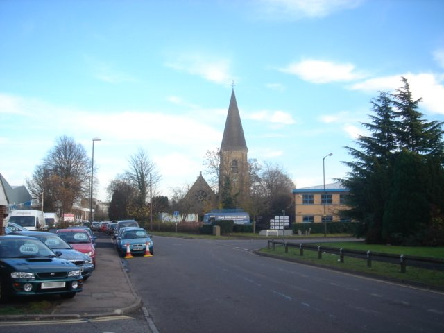 The site of the former village of Lowfield Heath; originally in Surrey, but now part of the Borough of Crawley in West Sussex, England. Looking east along the former village street, towards St Michael and All Angels Church.